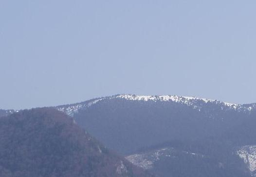 Úplaz